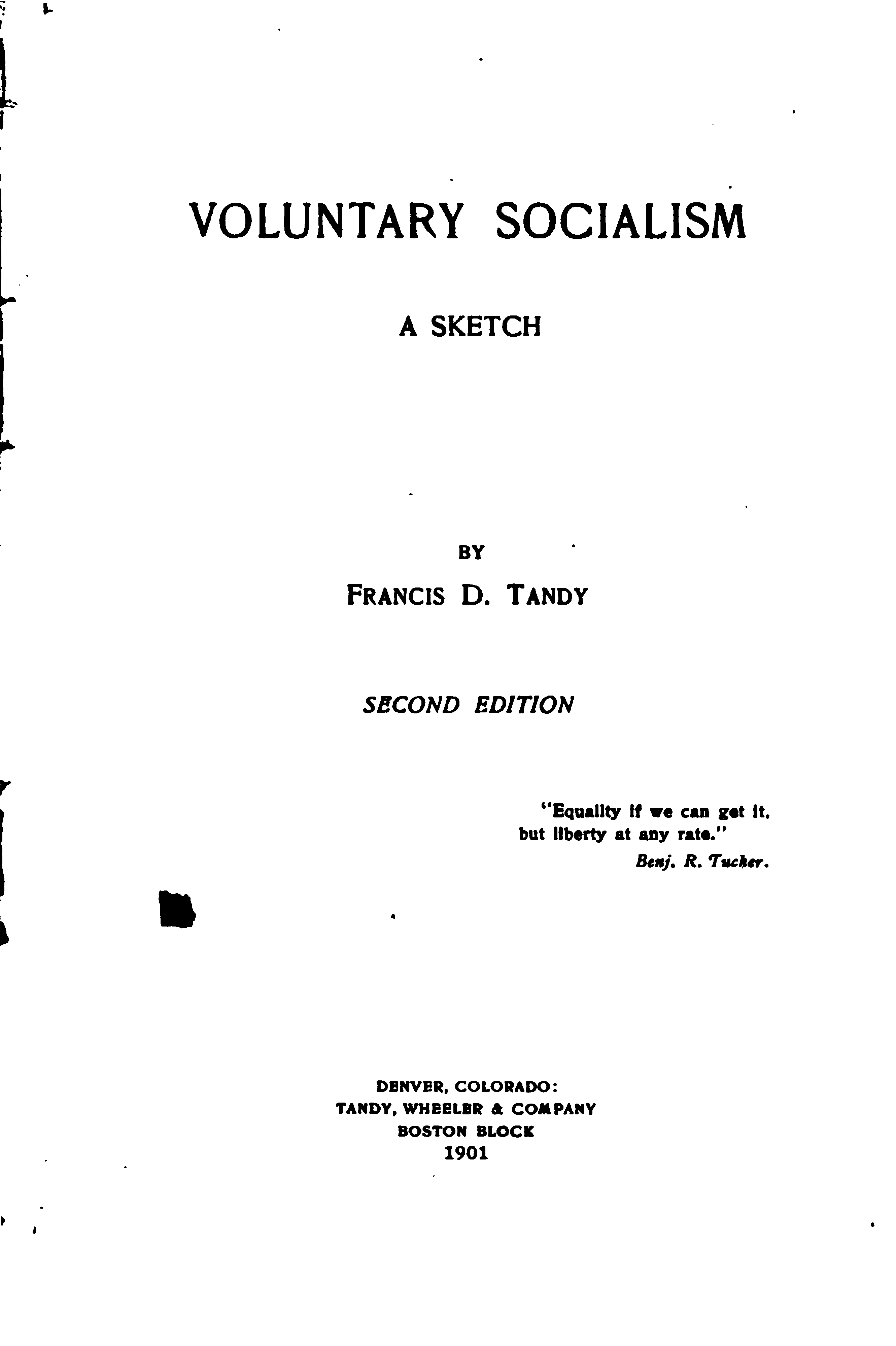 This is the front cover art for the book Voluntary Socialism written by Francis Dashwood Tandy.